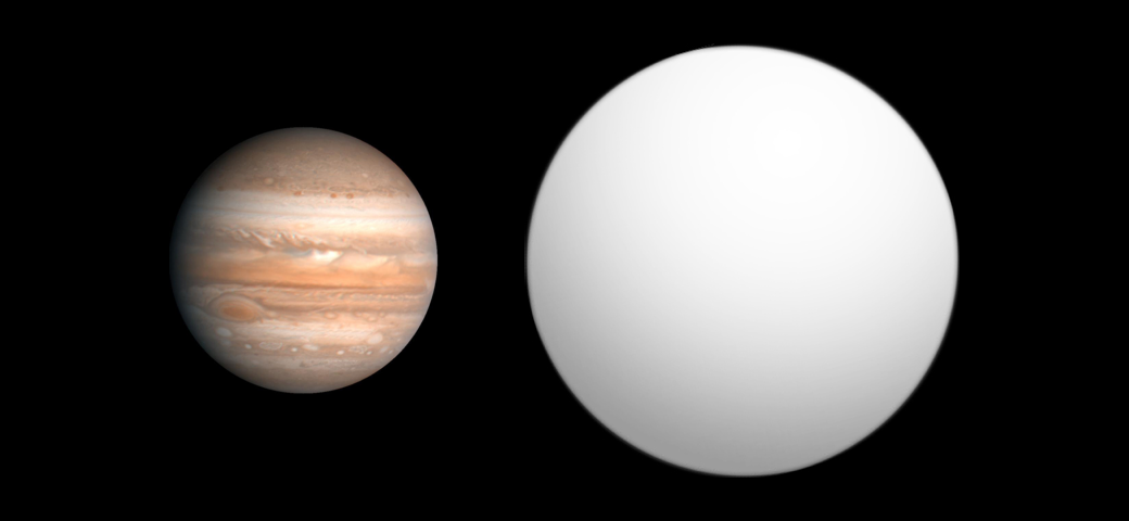 Comparison of best-fit size of the exoplanet OGLE2-TR-L9 b with the Solar System planet Jupiter, as reported in the Extrasolar Planets Encyclopaedia[1] as of 2010-10-03. ↑ Extrasolar Planets Encyclopaedia (2010-09-30). Retrieved on 2010-10-03.